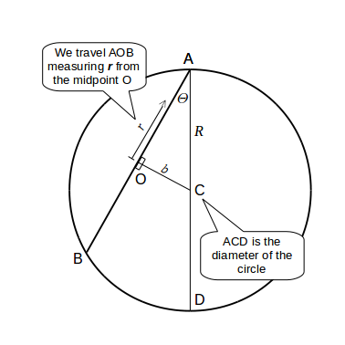 Diagram of path of gravity train non-diametrical straight line path.